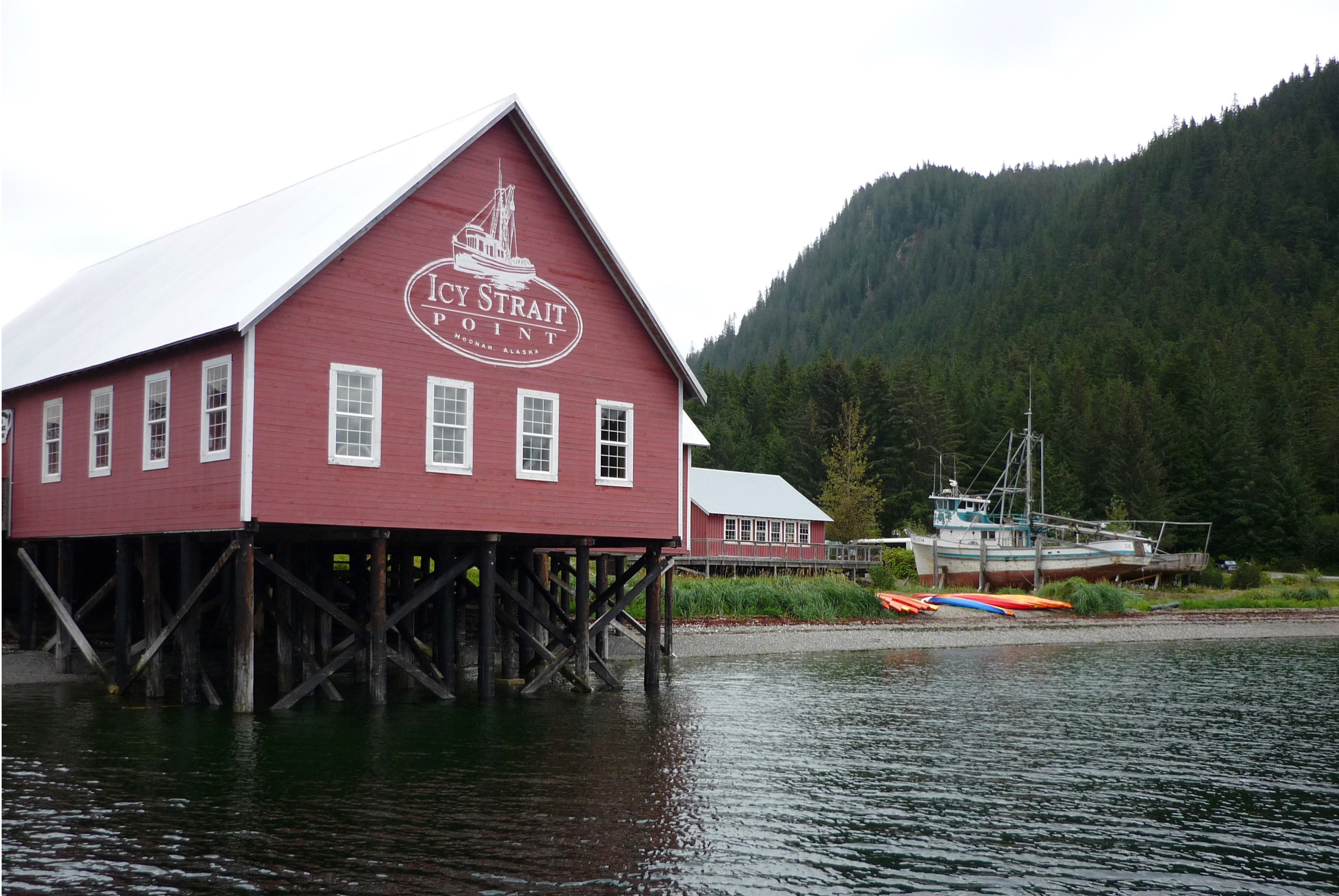 Icy Strait Point is a privately owned tourist destination just outside the small village of Hoonah, Alaska. It is located on Chichagof Island and is named after the nearby Icy Strait. Owned by Huna Totem Corporation, it is the only privately owned cruise destination in Alaska, as most stops are owned by the cities in which they are located. Huna Totem Corporation is owned by approximately 1,350 Alaskan Natives with aboriginal ties to Hoonah and the Glacier Bay from wiki